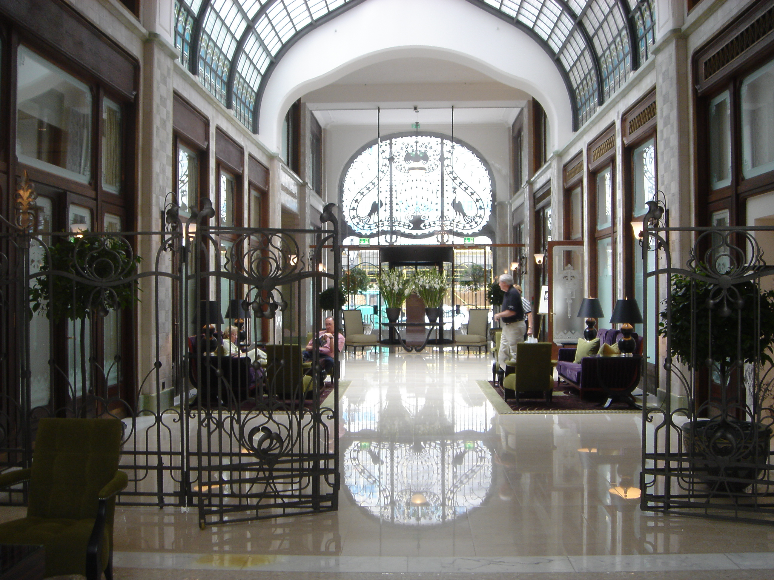 The north wing of the entrance hallway of the Gresham Palace